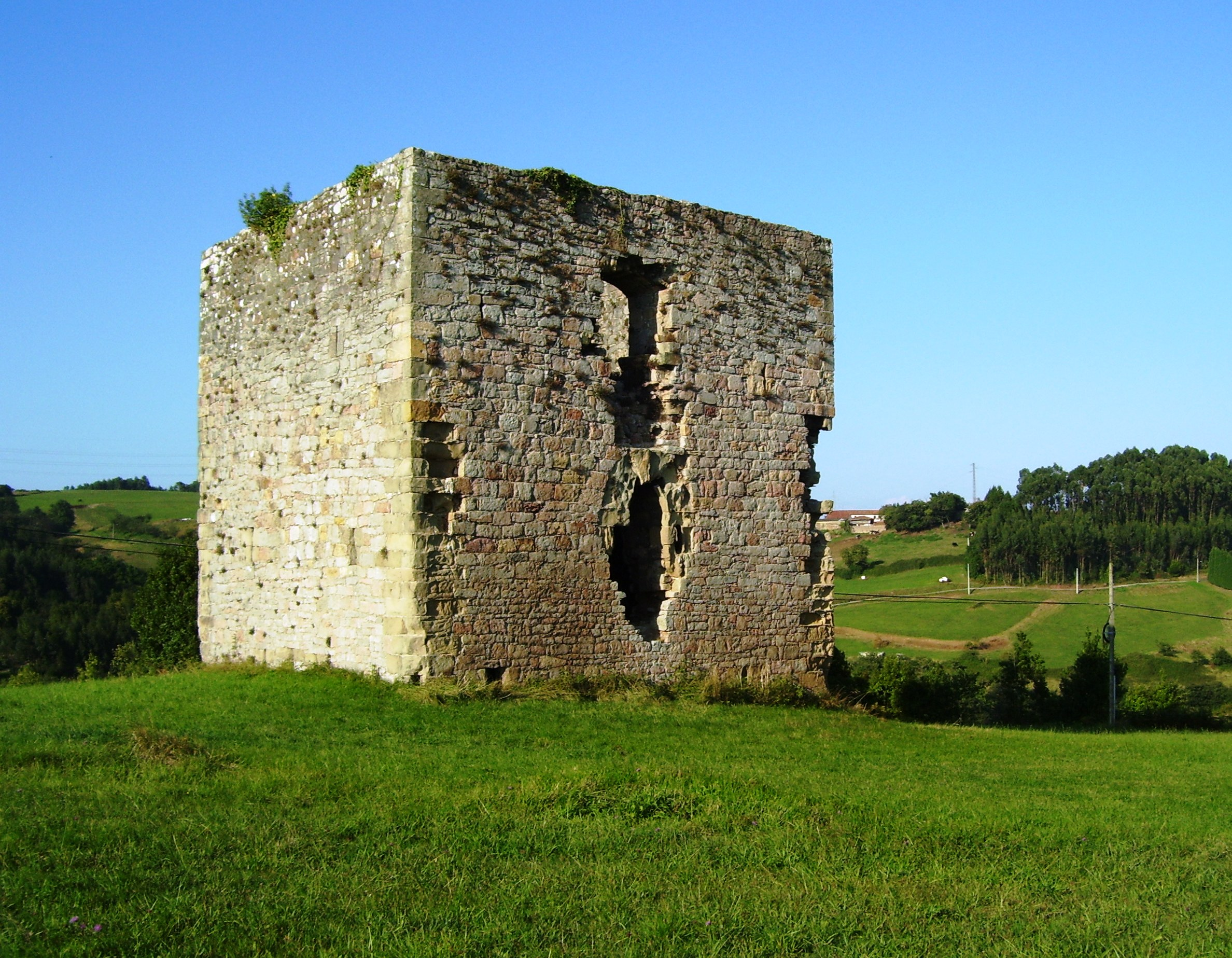 Prendes medieval tower, the council of Carreno, Asturias, Spain. XV century building. This is an example of military architecture. With its system of loopholes, in total 15, covering all angles of shooting. Gateway located on the first floor.